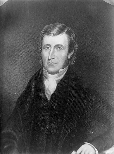 1 negative : glass, dry plate, b&w ; 16.5 x 12 cm.